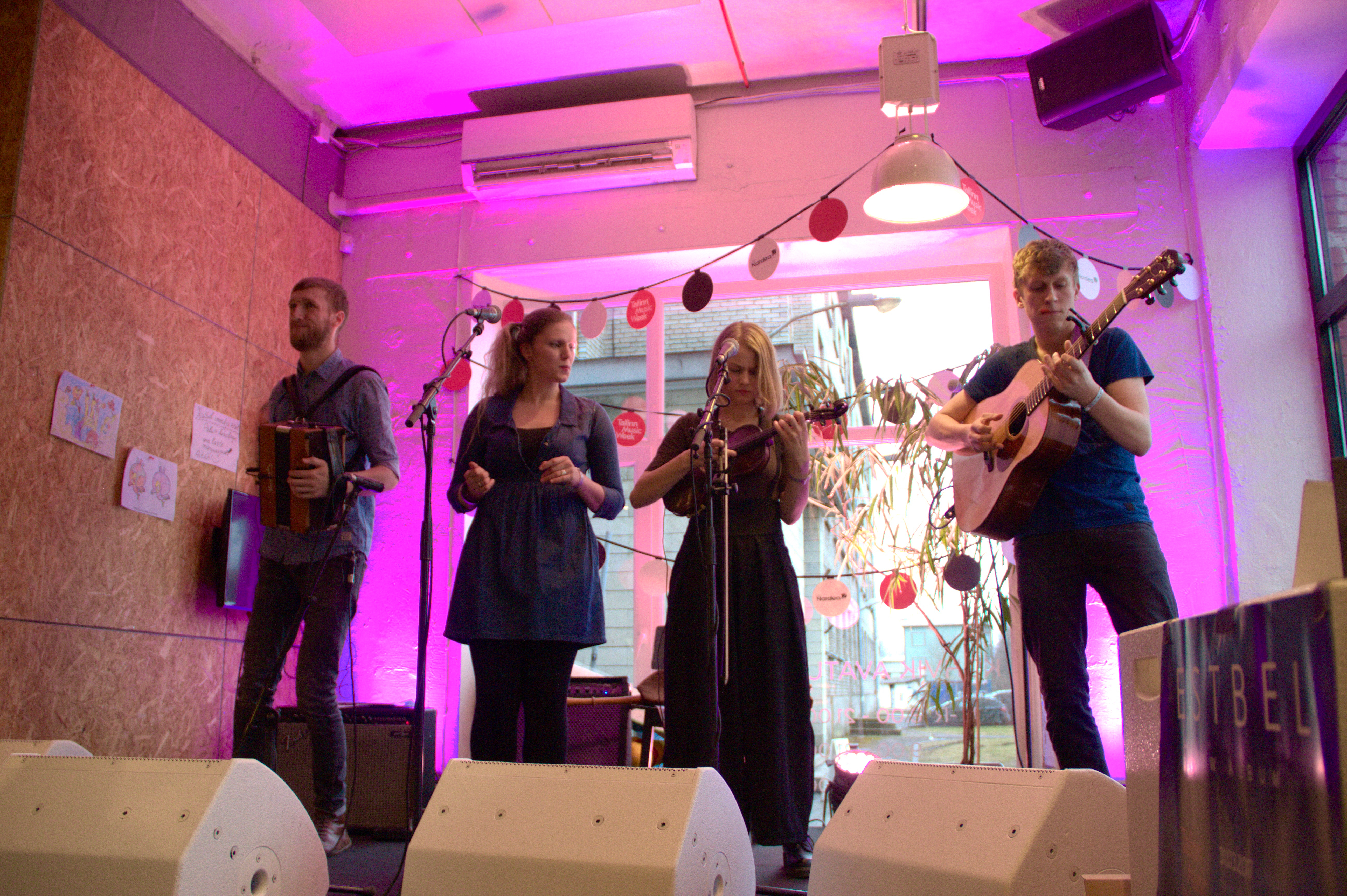 Estbel at Tallinn Music Week 2017